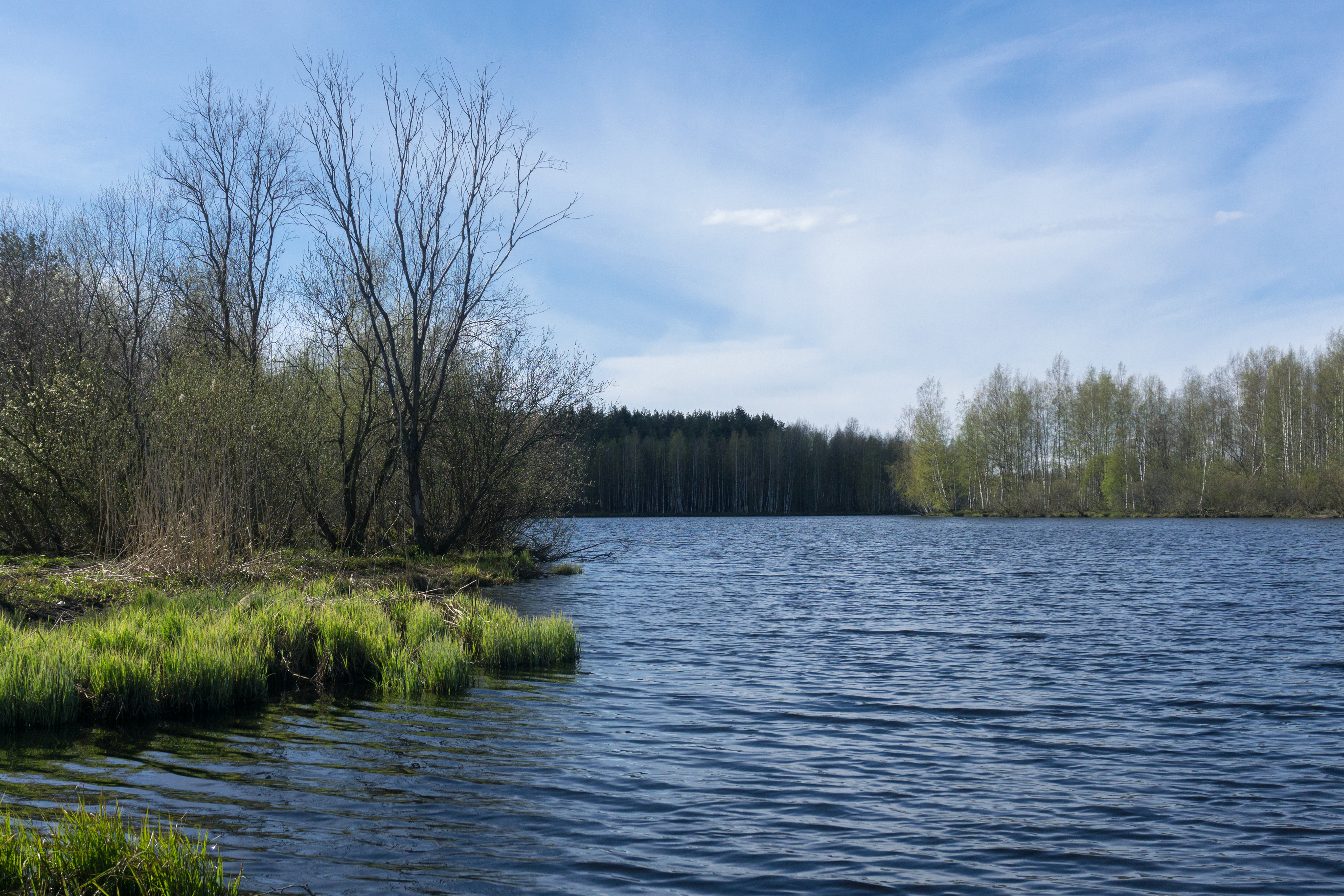 Yuntolovka River